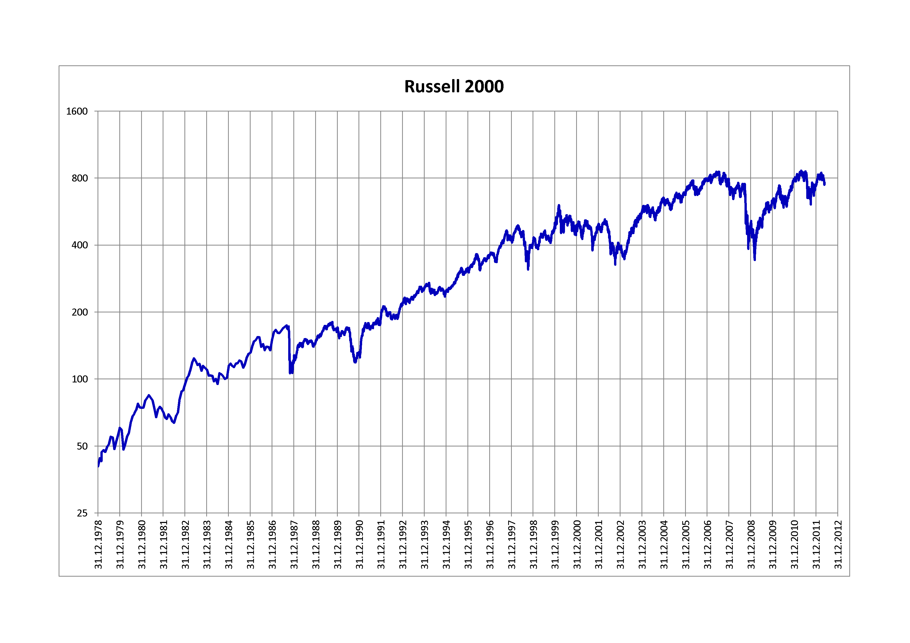 Russell 2000 Index from December 1978 to May 2012 (daily closings)